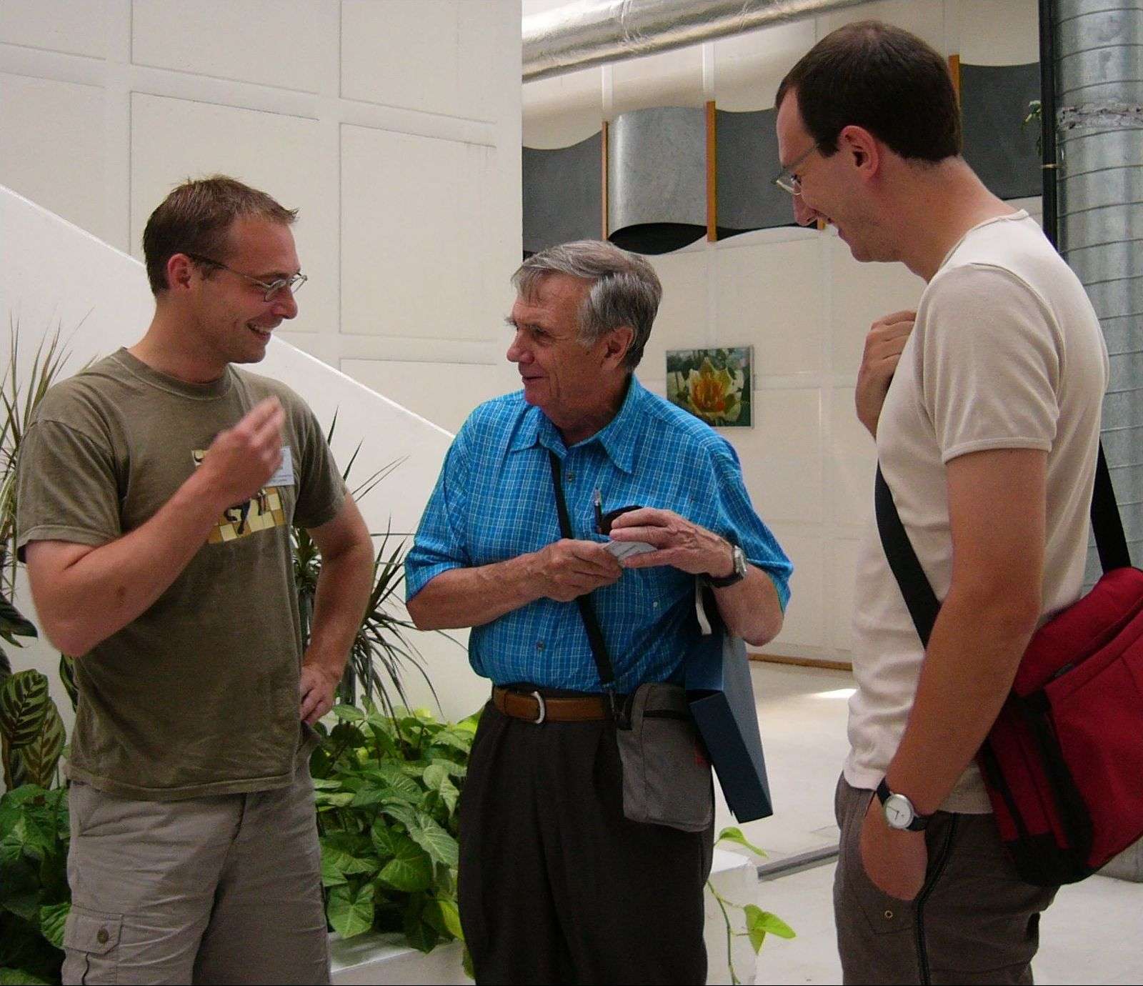 The Russian mathematician Sergei Konstantinowitsch Godunow at the 11. conference on hyperbolic Problems in Lyon, July 2006, in discussion with other mathematicians. Photograph: P. Birken, all three depicted agreed to the publication.